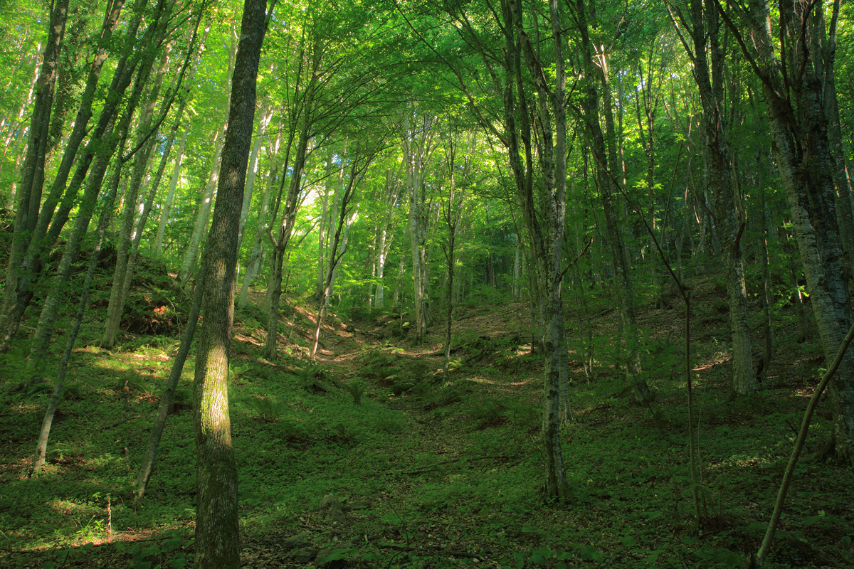 Sredoka reserve, Strandzha Mountain, Bulgaria